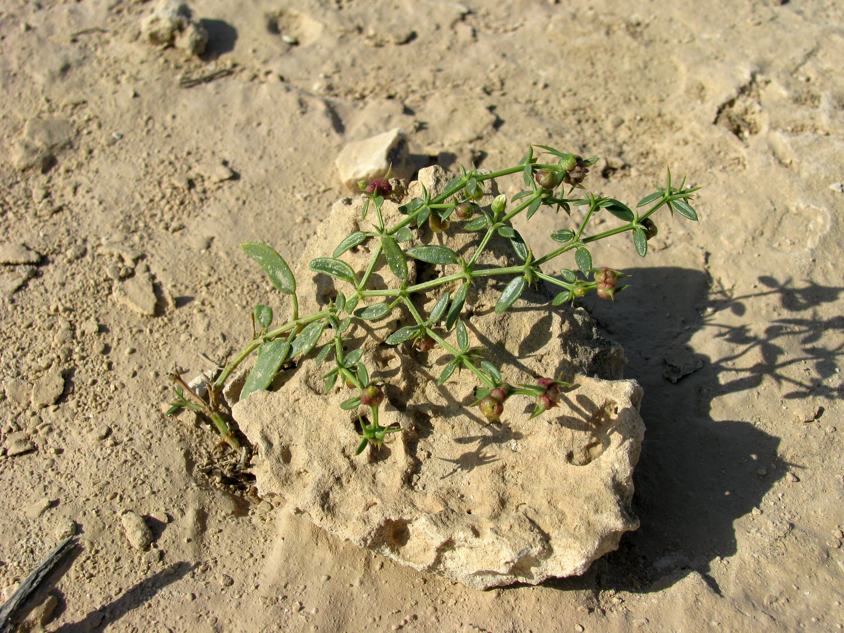 A small plant at Jebel Jassassiyeh - somehow finding enough water to survive.